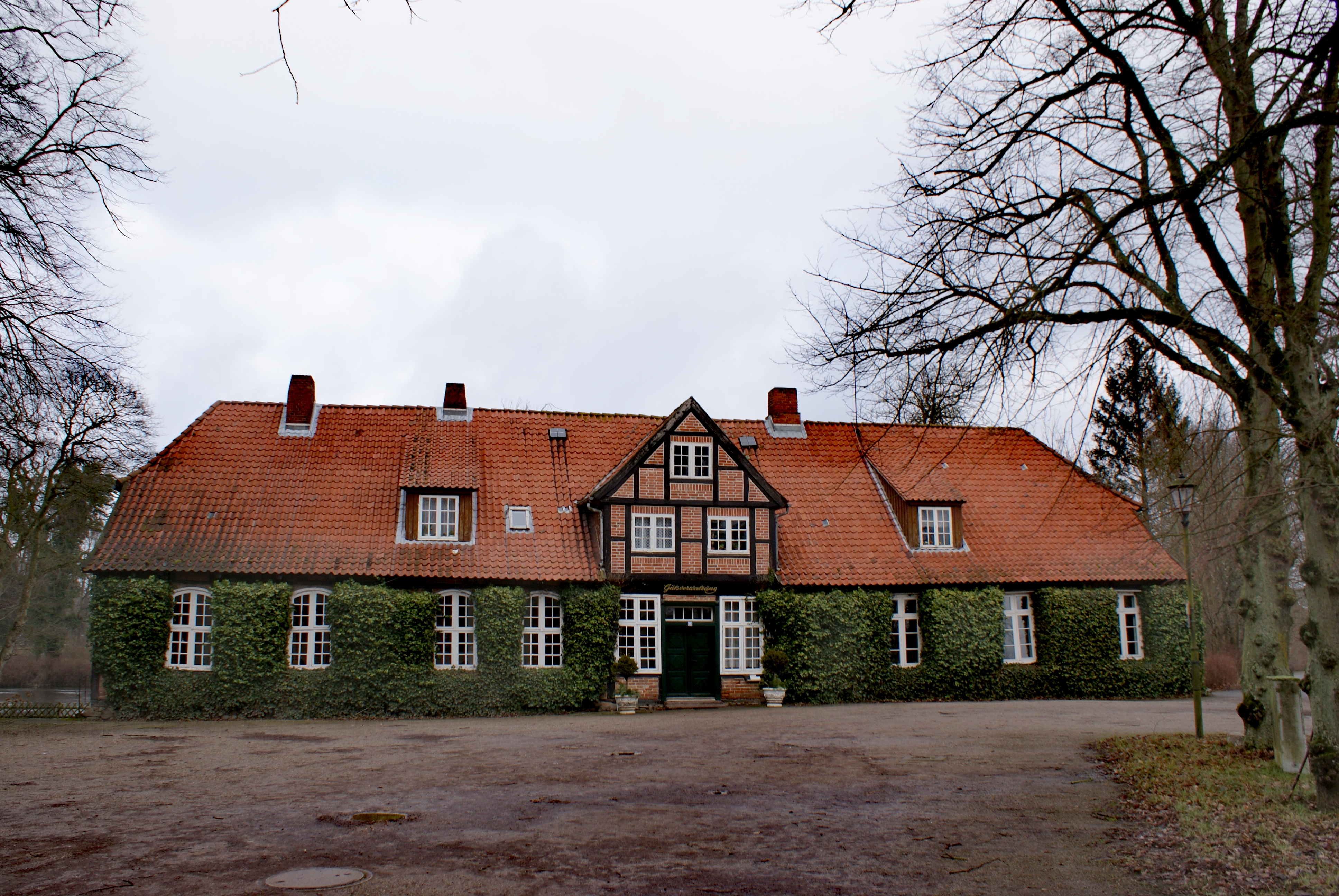 former Guesthouse on Weißenhaus Manor